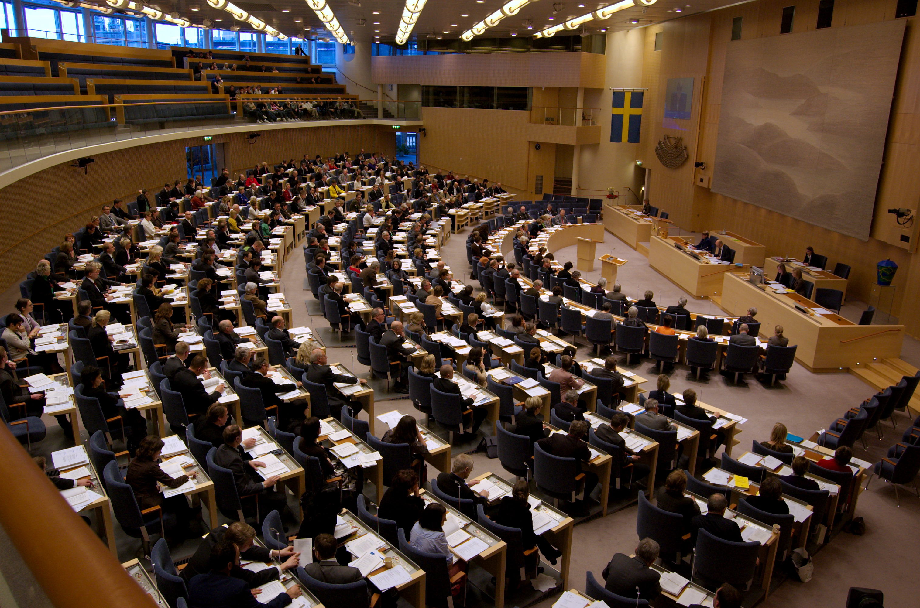 Swedish Parliament, voting for the Ipred law